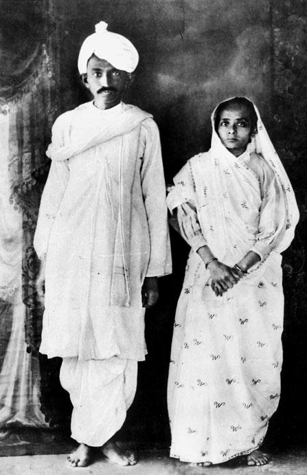 Mahatma Gandhi with his wife Kasturba on their return to India from South Africa in 1915.